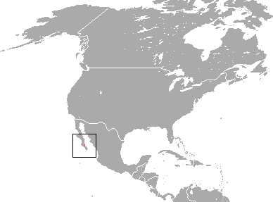 Black Jackrabbit (Lepus insularis) range, with colonial borders added